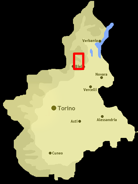 Strona di Mosso valley position within Piedmont (NW Italy)